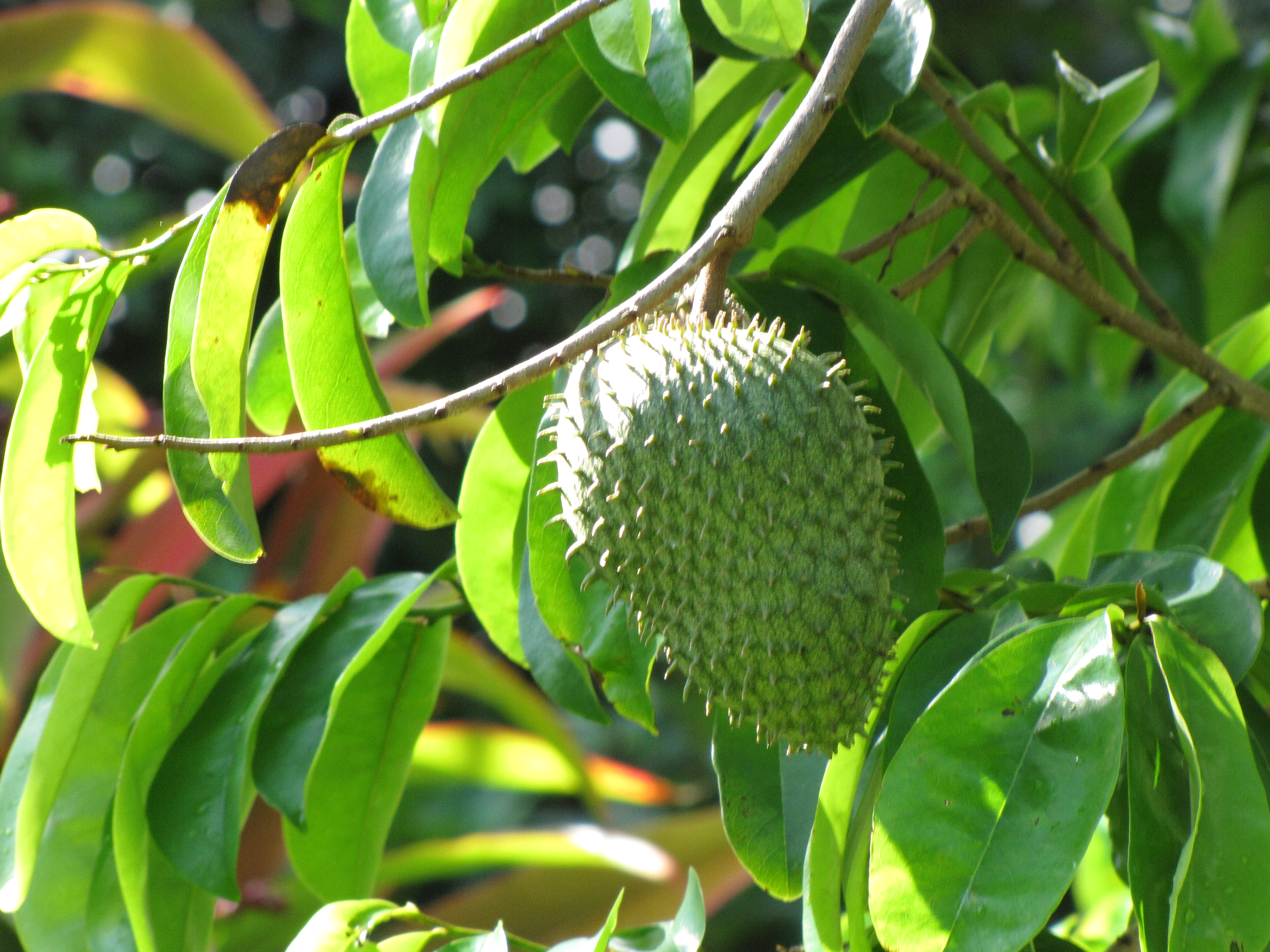 Annona muricata (Soursop) Fruit and leaves at Garden of Eden Keanae, Maui, Hawaii. March 30, 2011 #110330-3834 Image Use Policy